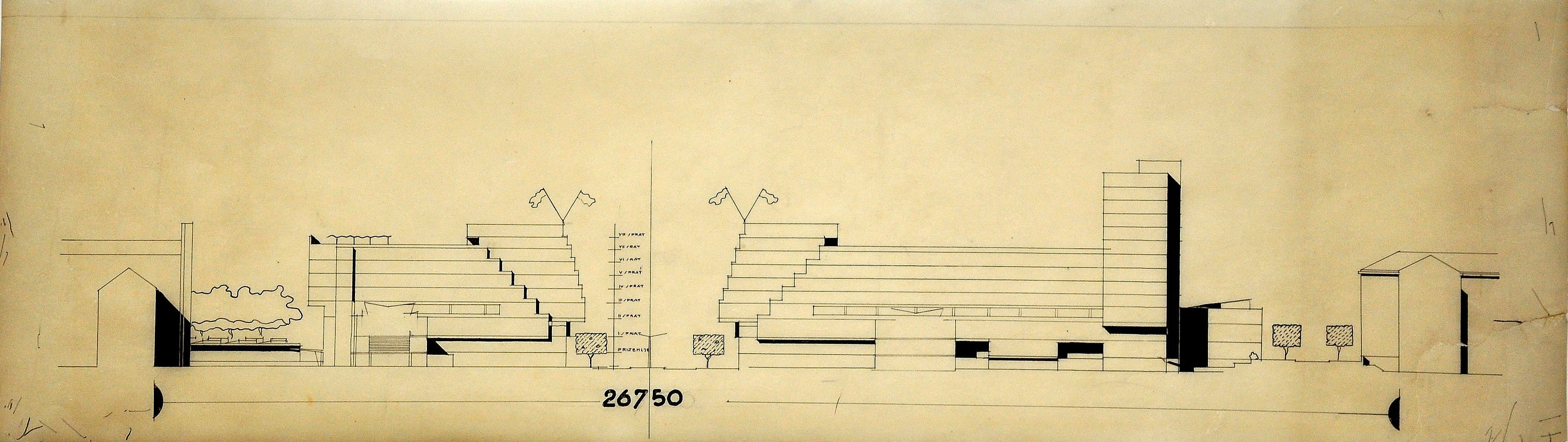 General Staff plan made by architect Nikola Dobrović.